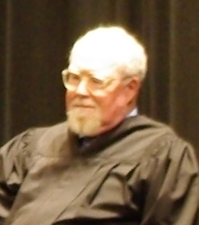 Oregon Supreme Court justice W. Michael Gillete at the Oregon Bar swearing-in ceremony at Willamette University.